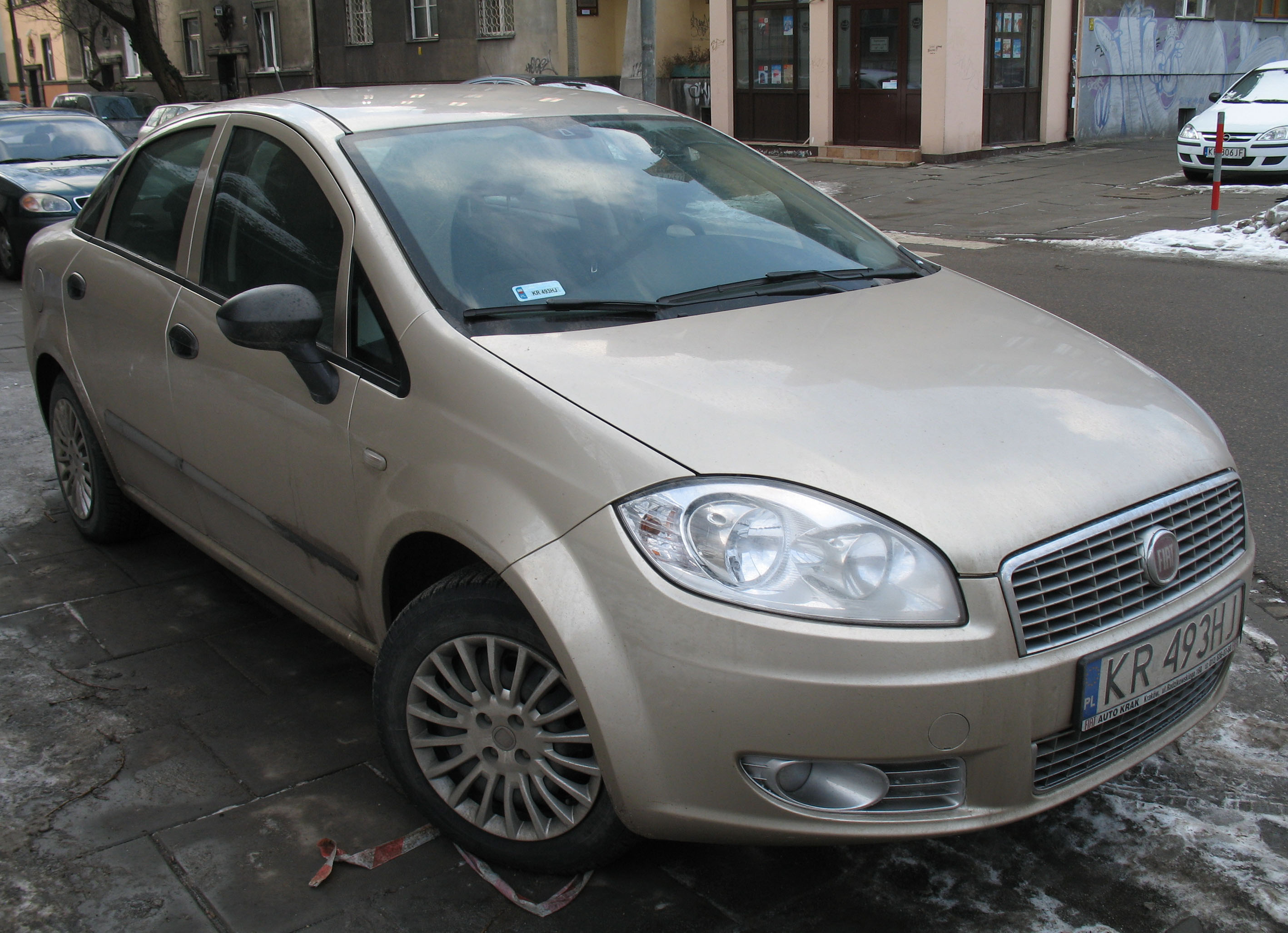 Fiat Linea car in Kraków, Poland. Built Tofas in Turkey.